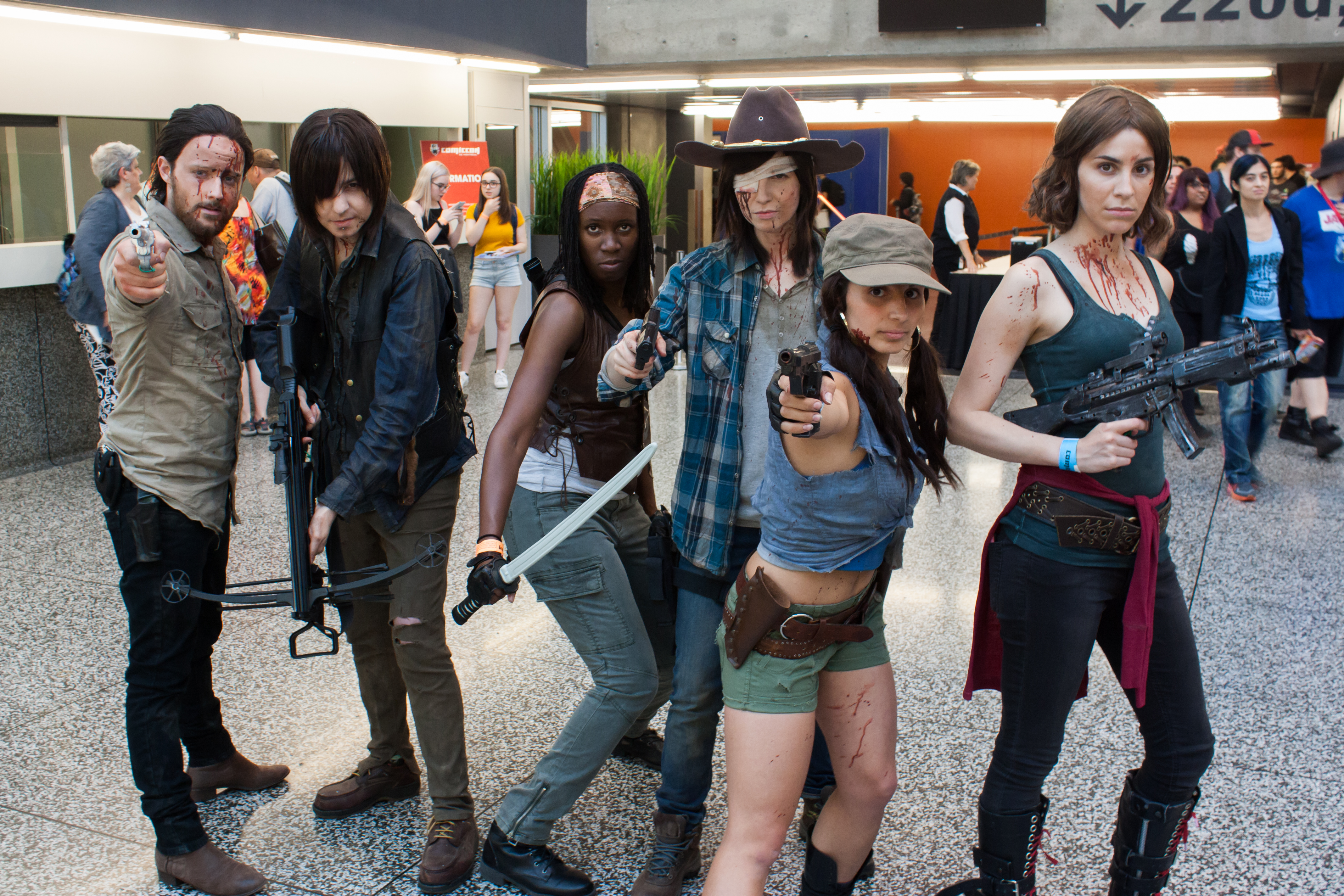 Cosplay on Friday, day one, of the Montreal Comiccon 2016.